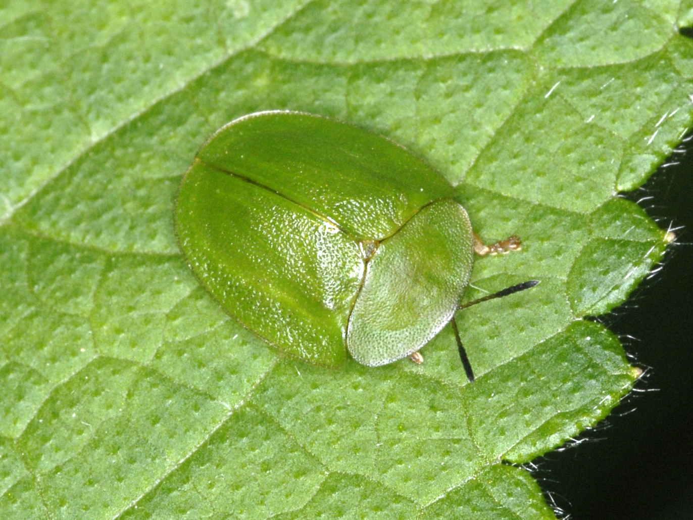 "Cassida viridis". Regional Park of Capanne di Marcarolo, Alessandria, Italy